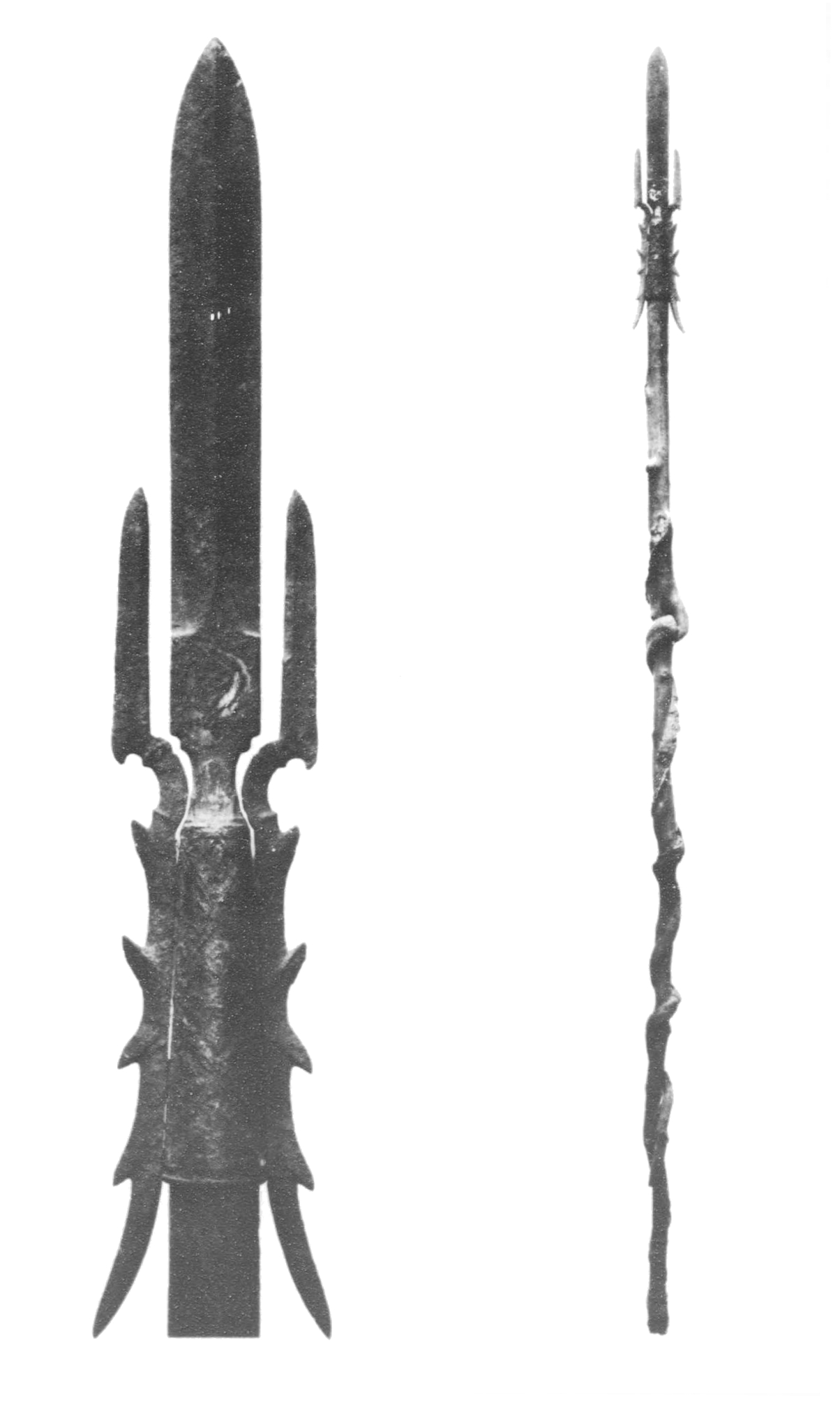 Twin bladed iron halberd inlaid with gold , Important Cultural Properties of Japan.